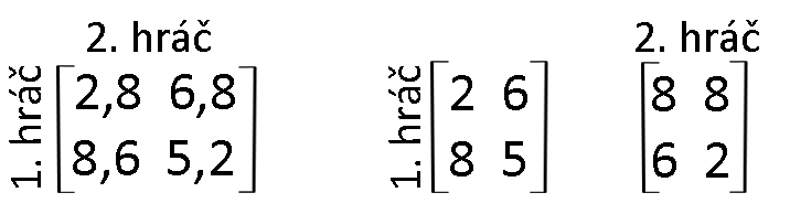 dualmatrix